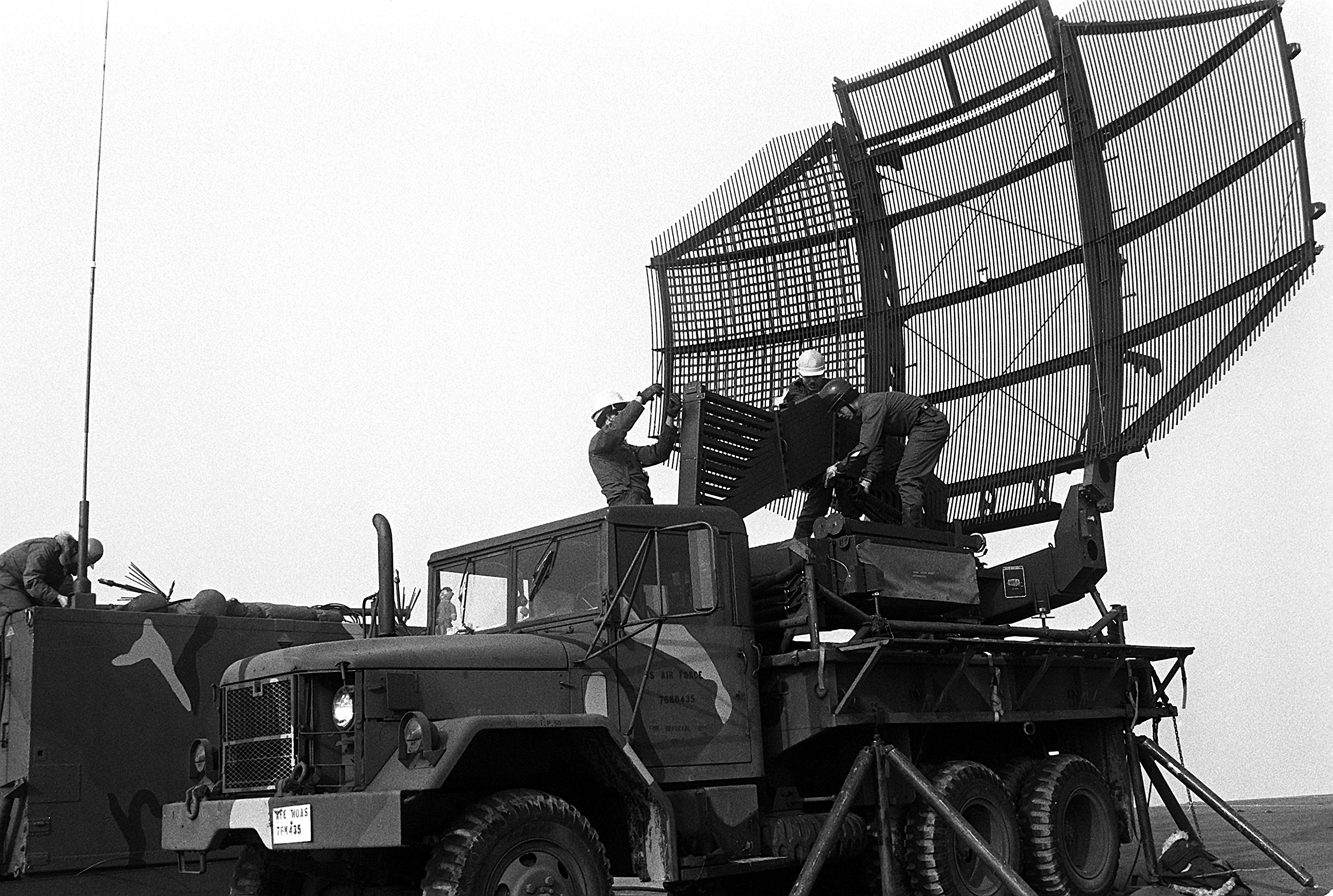 Members of the 636th Tactical Control Flight, stationed at Wanna, set up an AN/TPS-43E tactical three-dimensional radar system while deployed at the Rockenhausen training area.